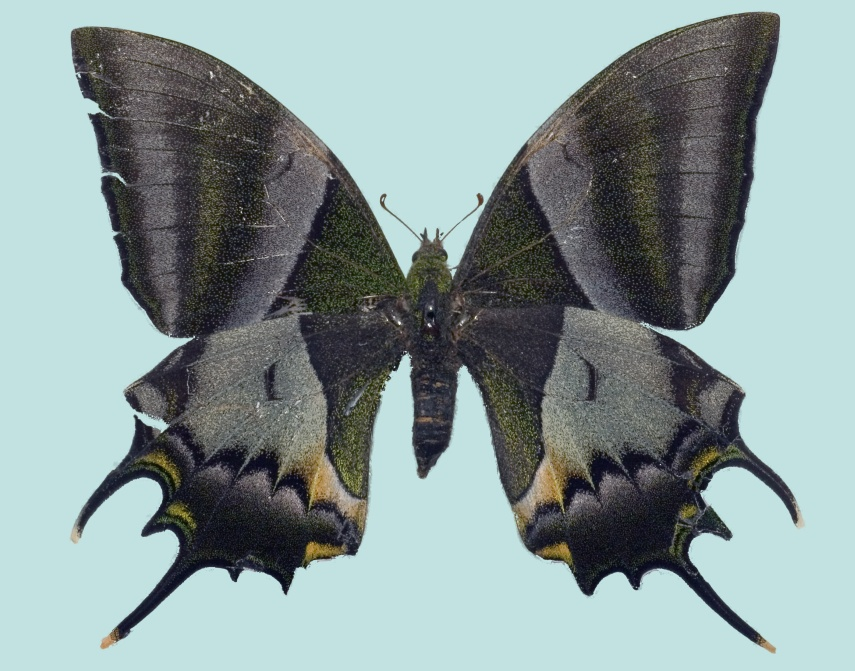 Modified Teinopalpus imperialis female image